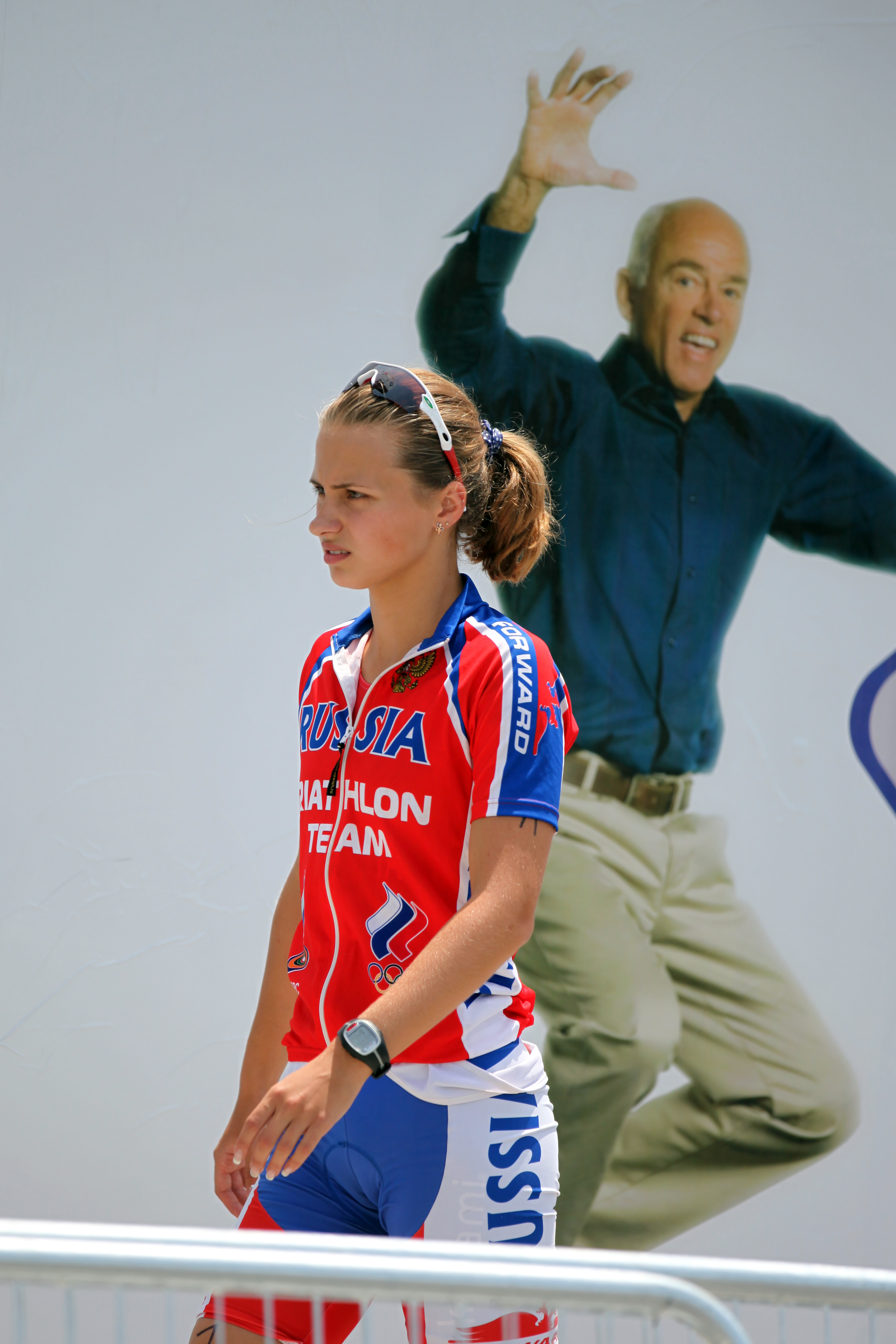 Anastasiya Protasenya (Анастасия Александровна Протасеня) at the Triathlon European Championships in Pontevedra.